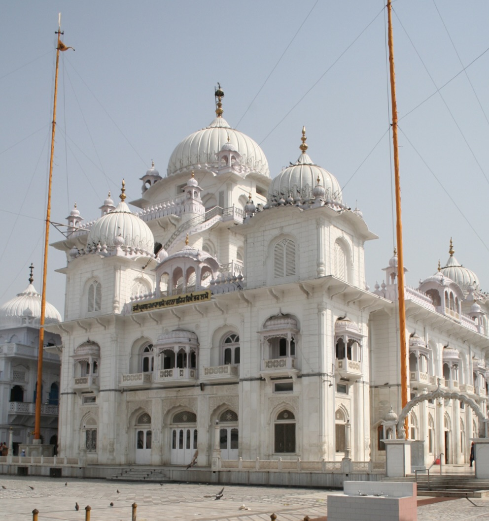 A view of Takht Shri Harmandir Saheb, Patna, India. It marks the birth place of the Sikh Guru Gobind Singh and is one of most sacred pilgrimage for Sikhs.